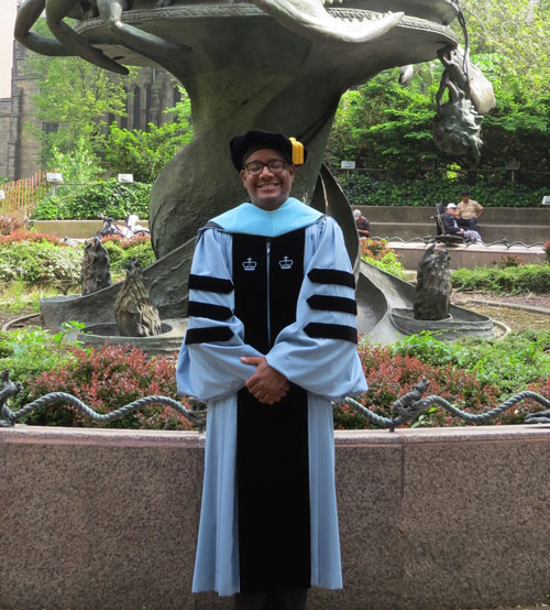 Photo of man wearing Columbia University Ed.D. robes